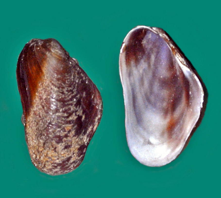 Two valves of Modiolus capax, on display at the Museo Civico Craveri di Scienze Naturali - Craveri